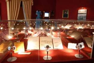 Museo del Gattopardo - Santa Margherita Belìce